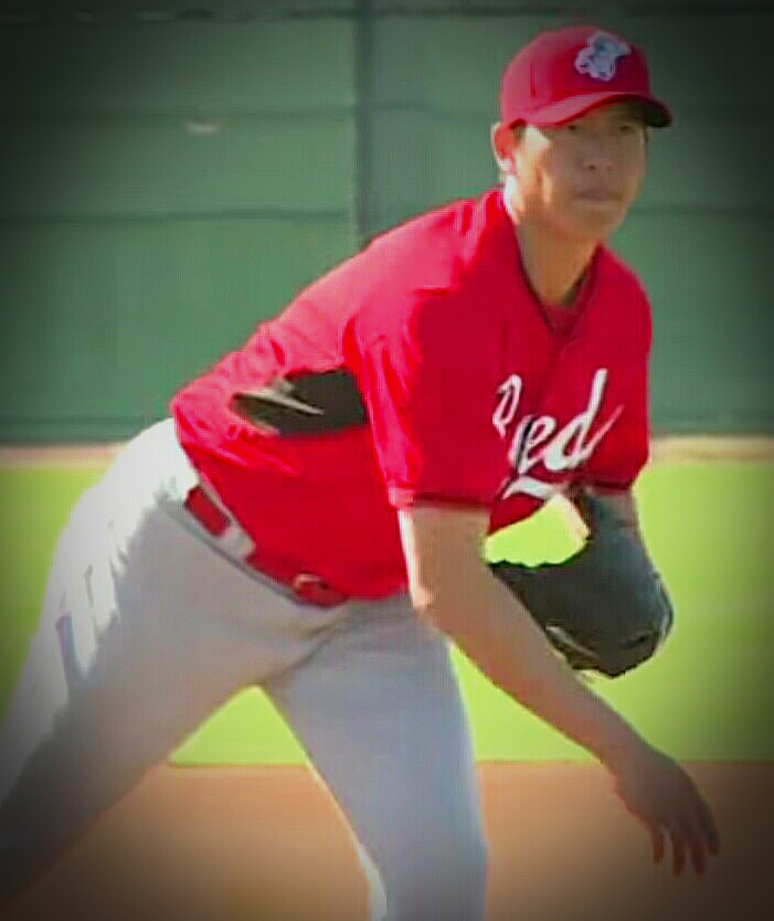 Chien-Ming Wang Reds 2014 Spring Training